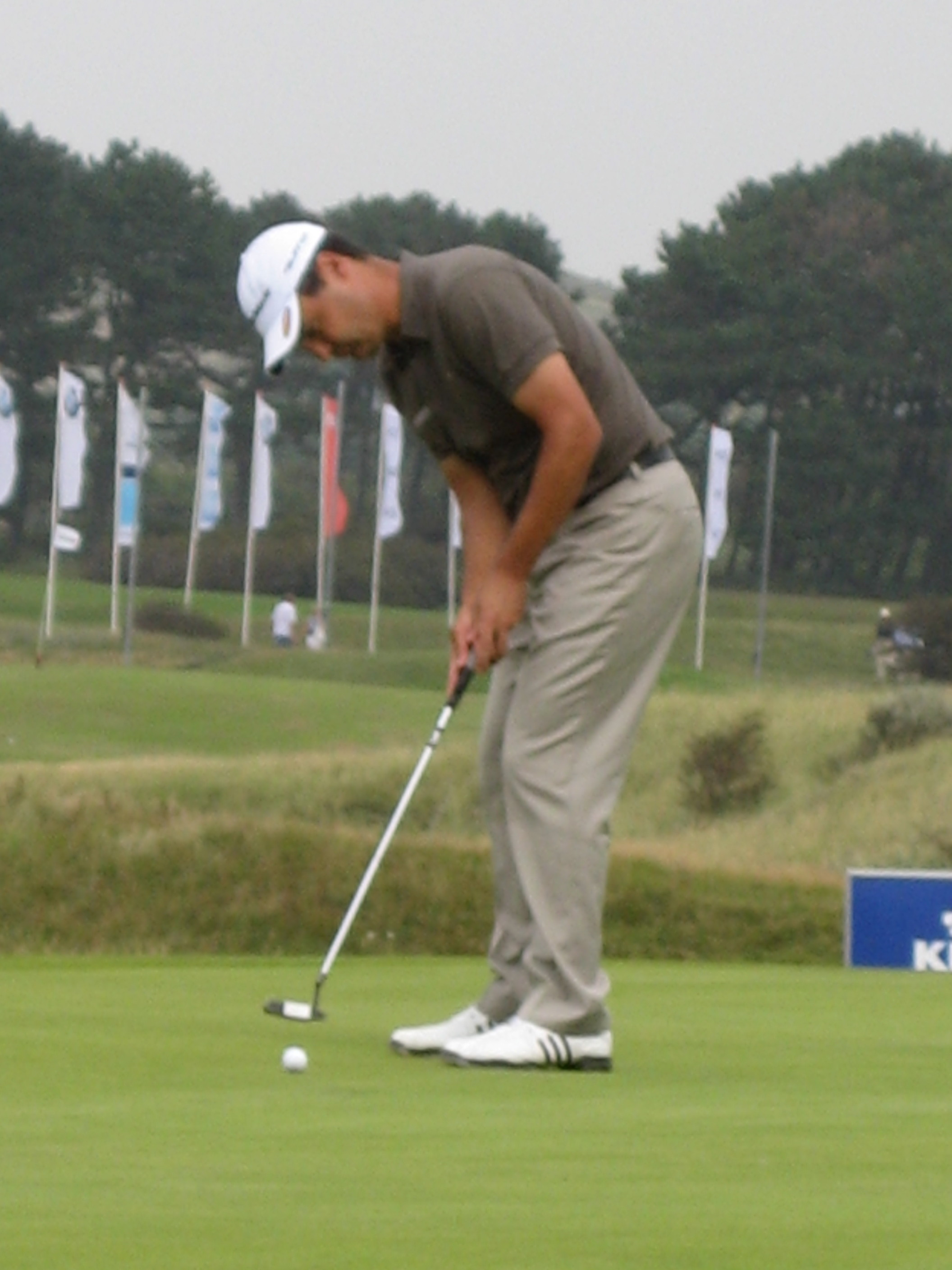 Simon_Khan at the KLM Open, Zandvoort